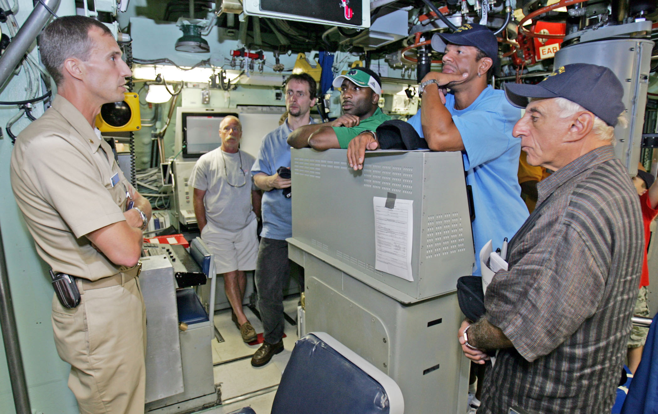 NORFOLK, Va. (Sept. 7, 2007) – Lt. Cmdr. Rich Rhinehart, executive officer of USS Norfolk (SSN 714), welcomes celebrities Raghib “Rocket” Ismail, Andre Reed and Jamie Farr to the attack submarine’s control room. U.S. Navy photo by Mass Communication Specialist 2nd Class Roadell Hickman (RELEASED)